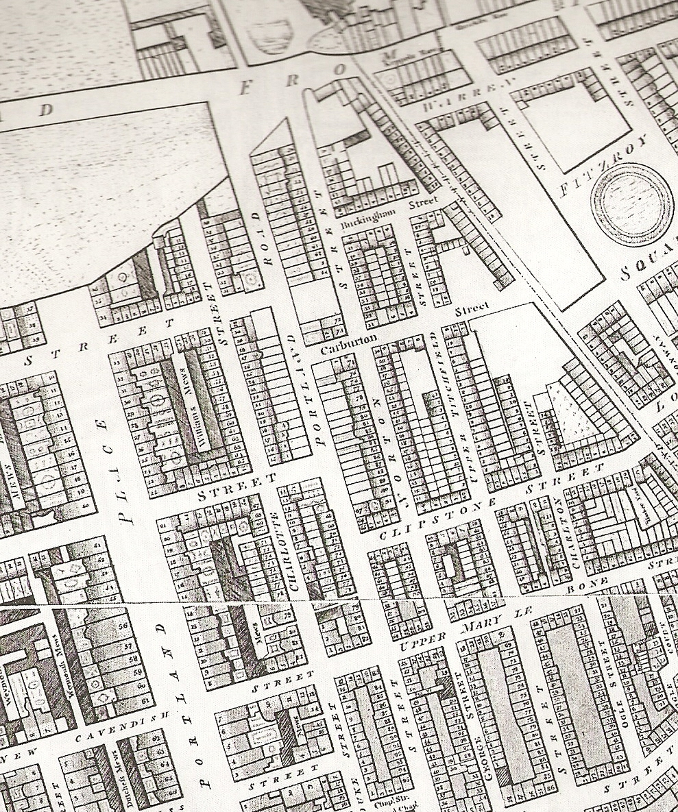 Exerpt of Richard Horwood 1792-9 Maps of Georgian London showing Portland Place, Portland Road (now Great Portland Street), Charlotte Street (now Hallam Street) and Norton Street (now Bolsover Street)